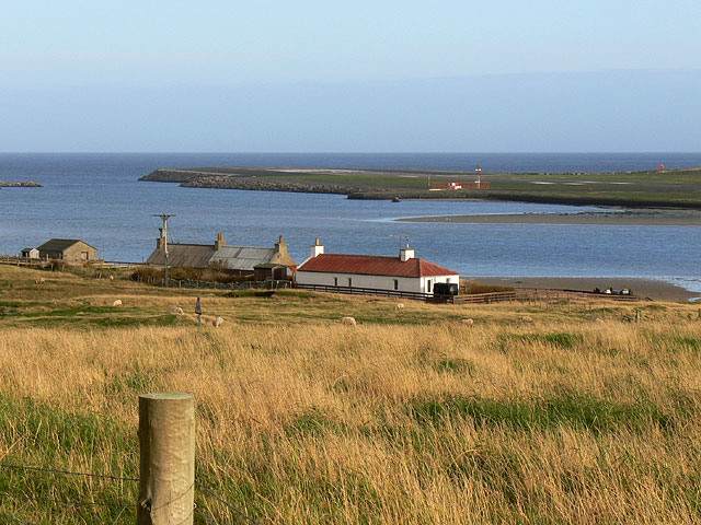 Pool of Virkie Looking east-south-east over the Pool of Virkie towards one of the runways of Sumburgh Airport.